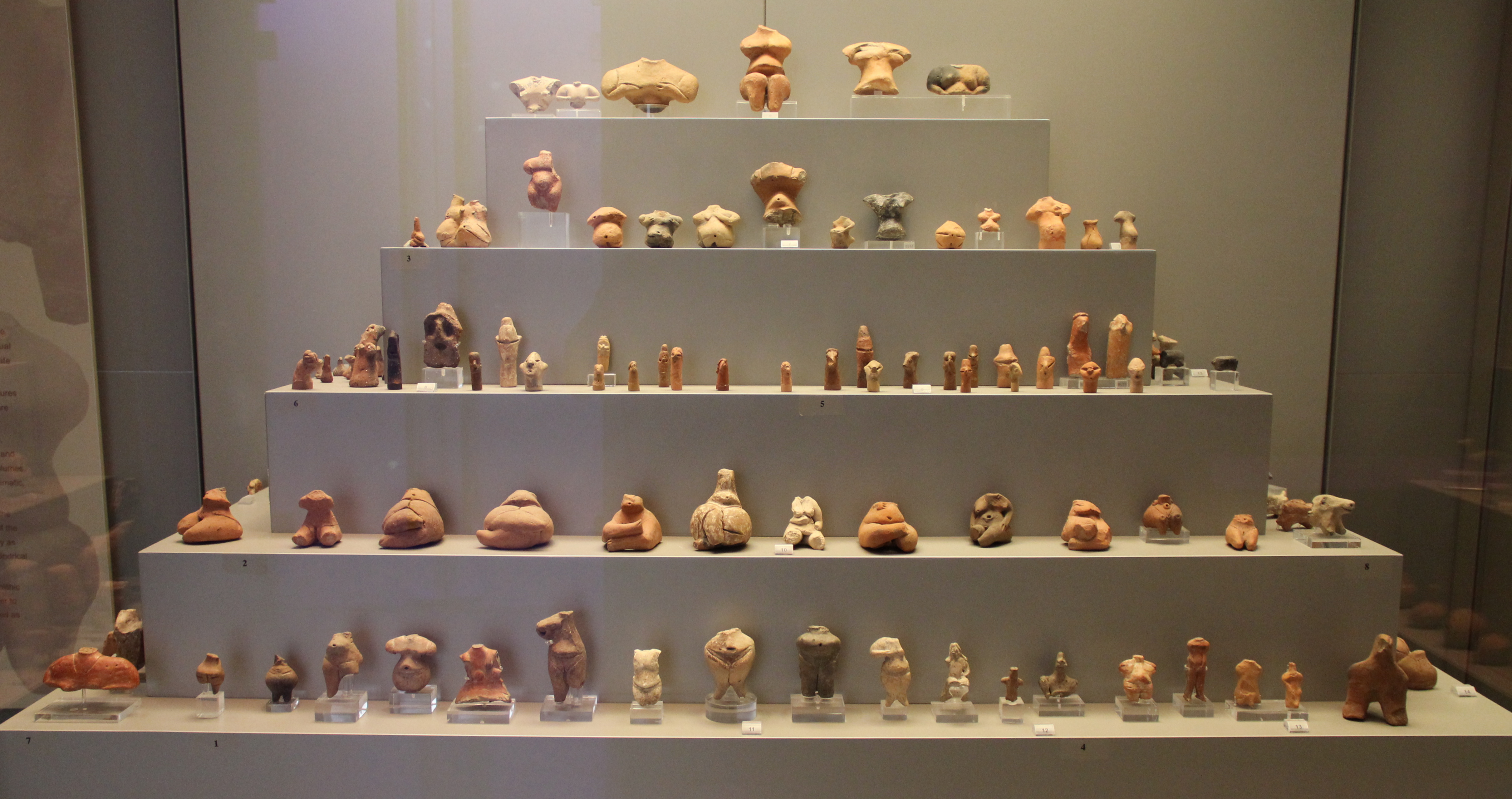 Greek Prehistory Gallery, National Museum of Archaeology, Athens, Greece. Complete indexed photo collection at . - Clay figurines from Thessaly. Early and Middle Neolithic period, 6500-5300 BC. From the excavations of Christos Tsountas at Sesklo and the Collection of Georgios Tsolozidis.